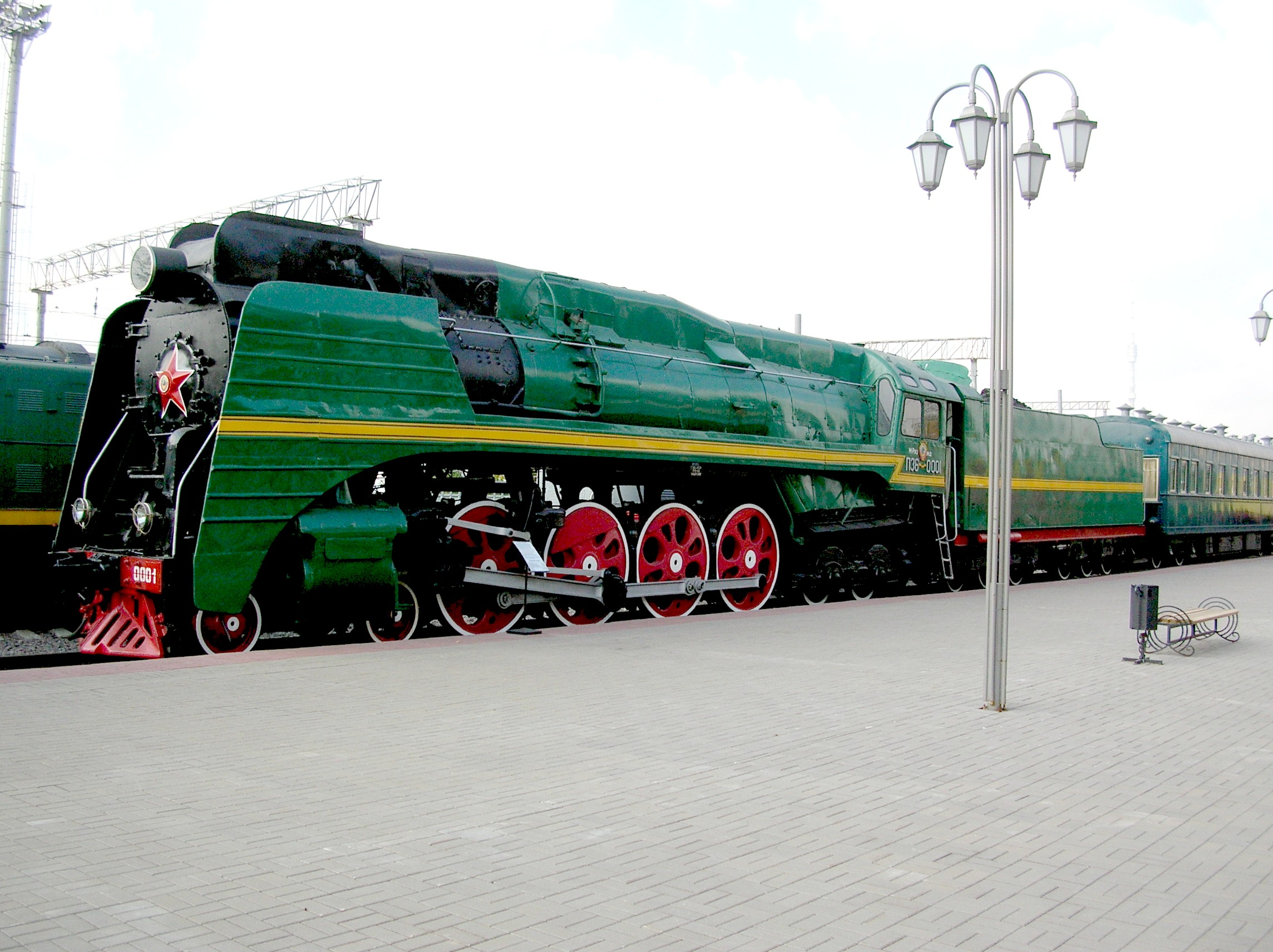 Russian steam locomotive П36-001. Moscow railroad museum